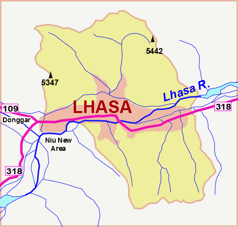 Sketch map of Chengguan District, Lhasa, Tibet